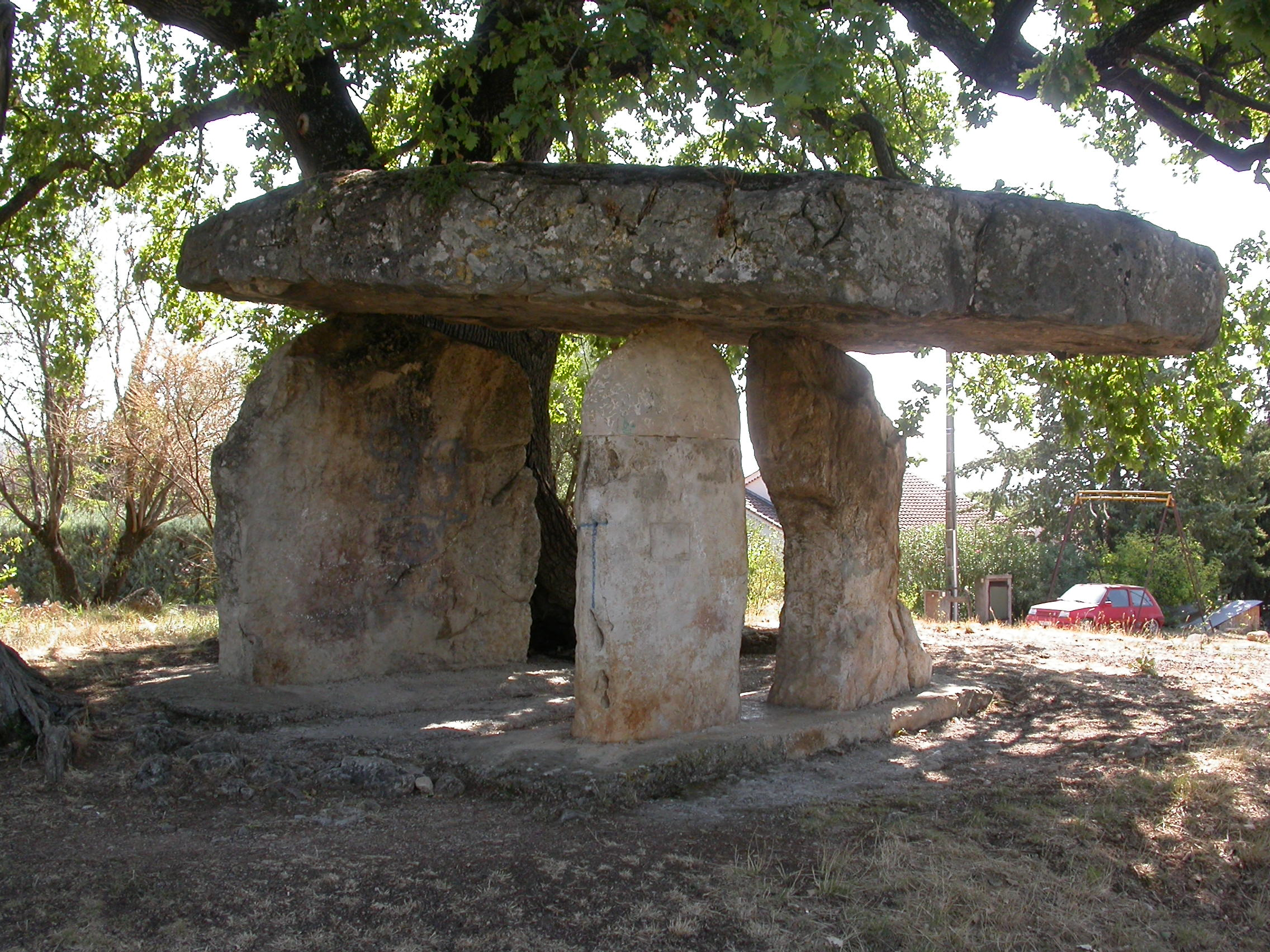 Draguignan (Var), Pierre des Fées 's dolmen